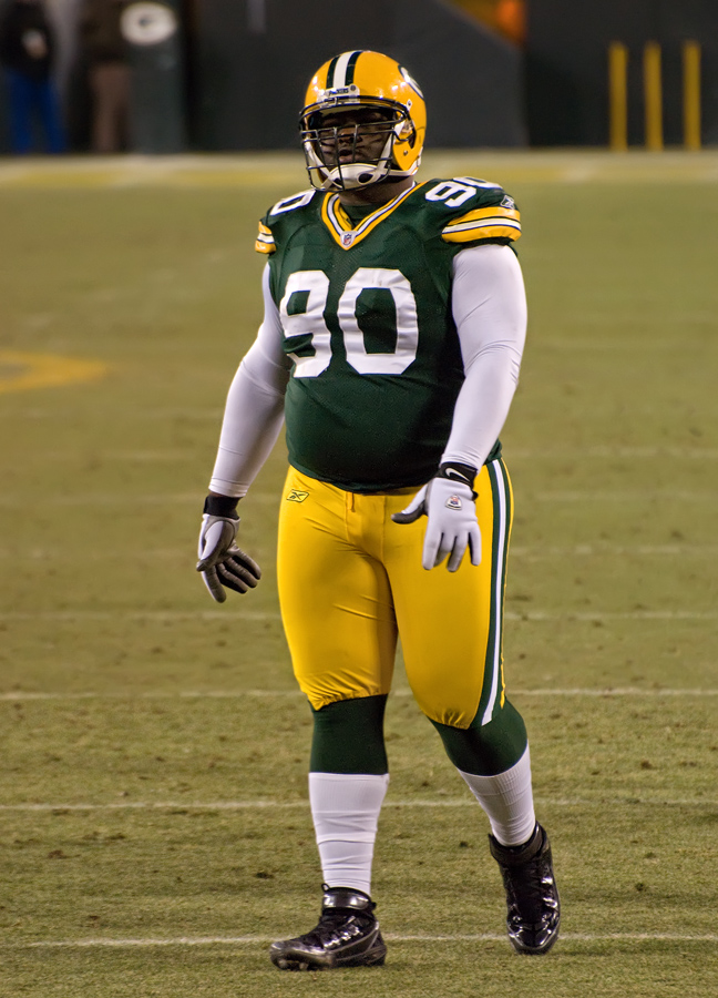 New York Giants vs. Green Bay Packers in the NFC Divisional Playoff Game at Lambeau Field on January 15, 2012. Photo by Mike Morbeck.